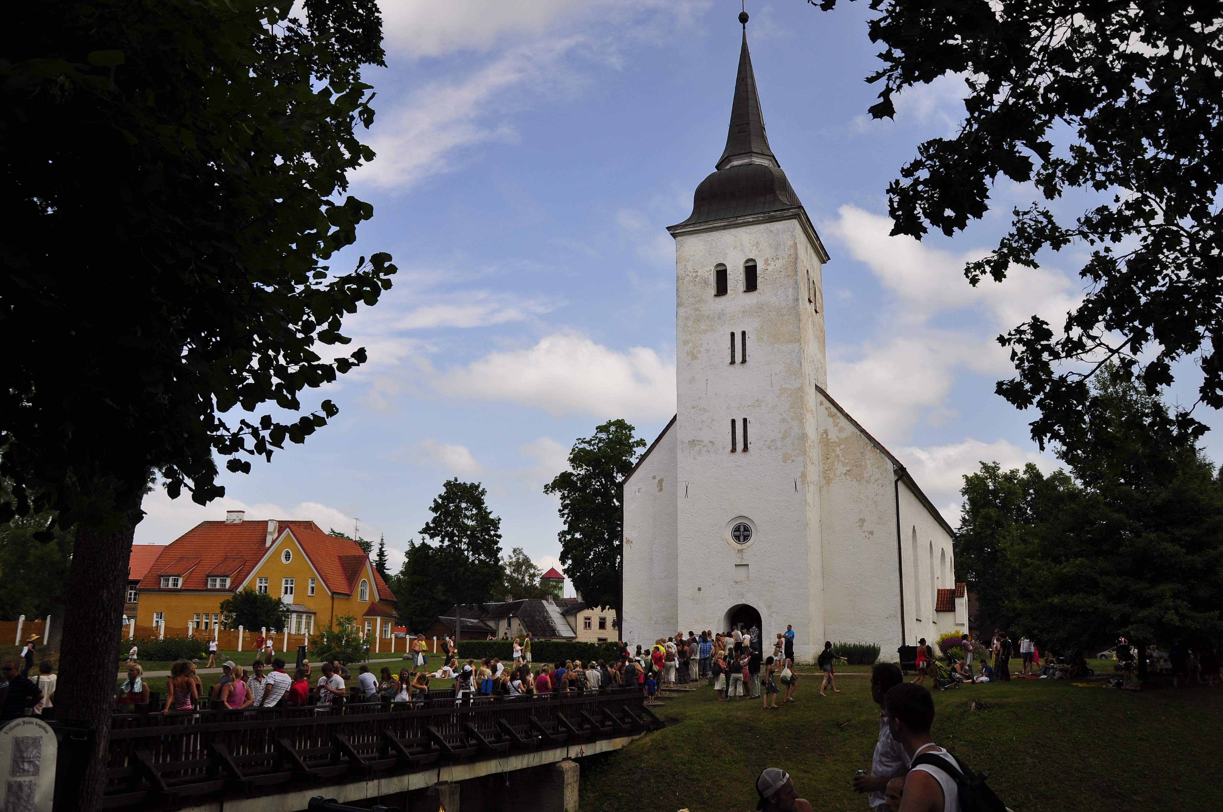 In line for church (but not for mass)